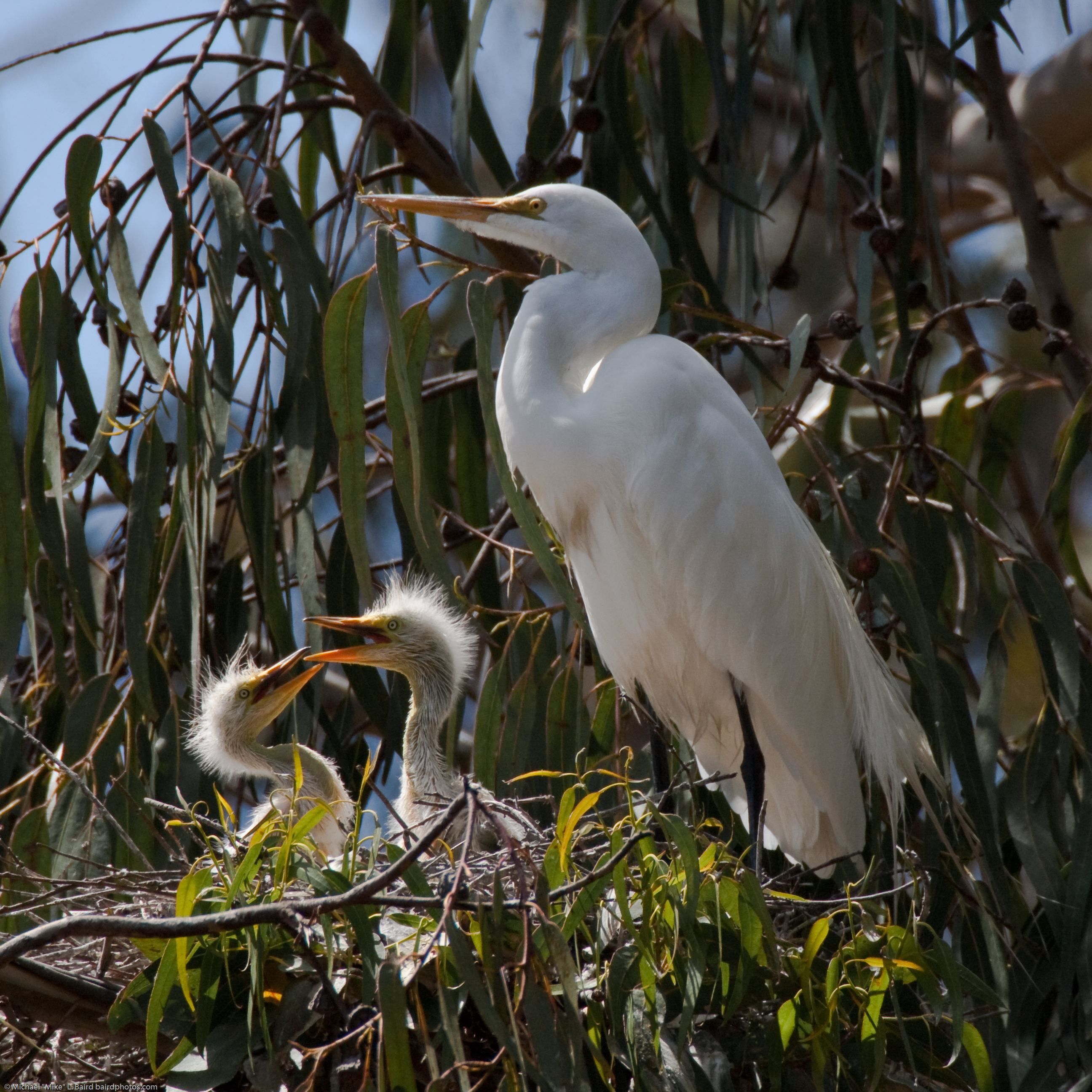 Great Egret (also known as the Great White Egret or Common Egret); parent on nest with chicks at Morro Bay Heron Rookery, USA.